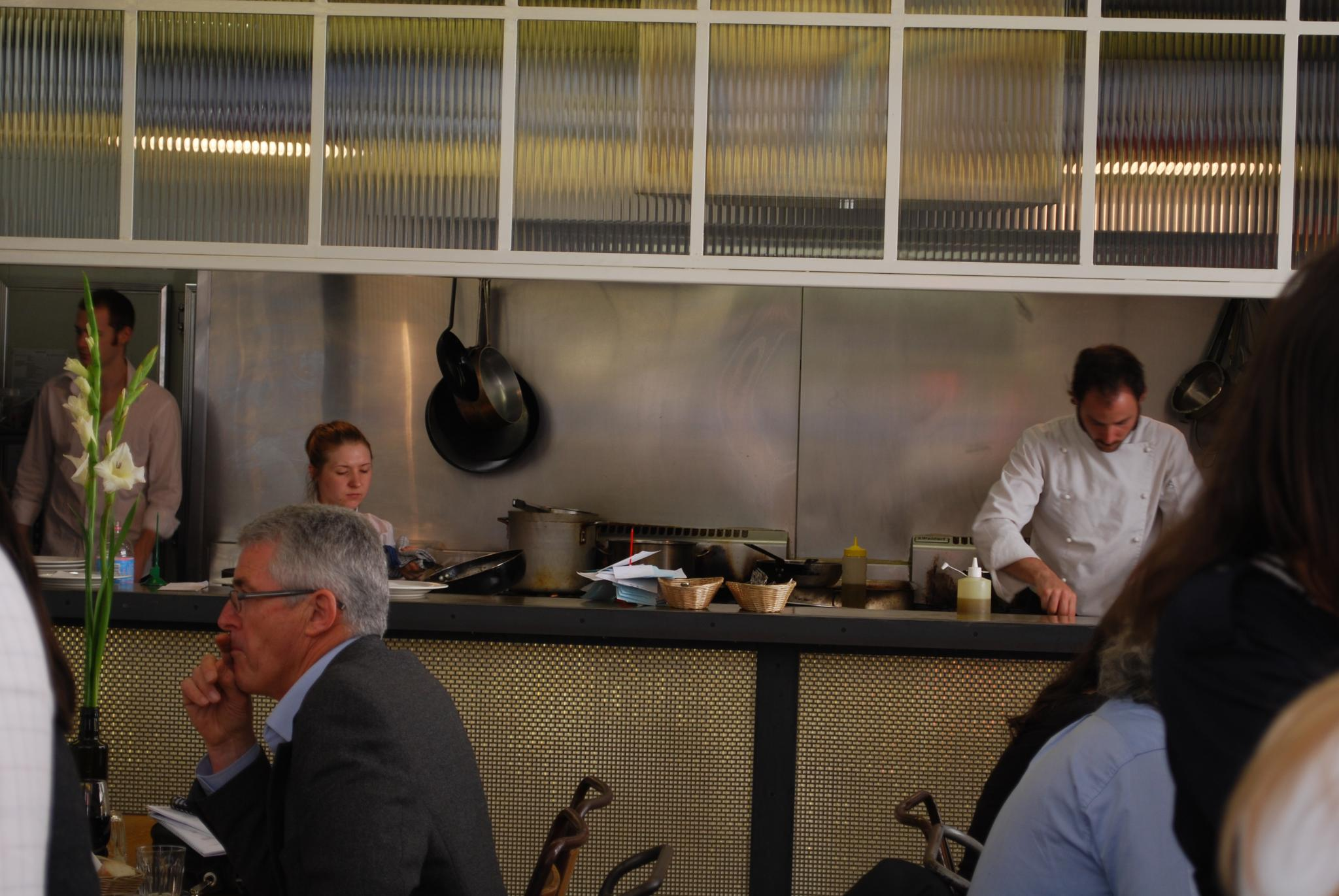 Simple, no-fuss Italian food highlighting the seasonal produce in a buzzy room perched above the Council of Adult Education and Melbourne City Library.